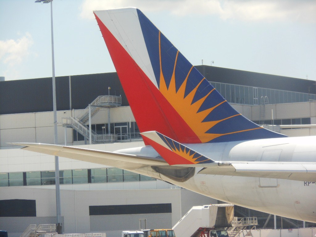 Used at